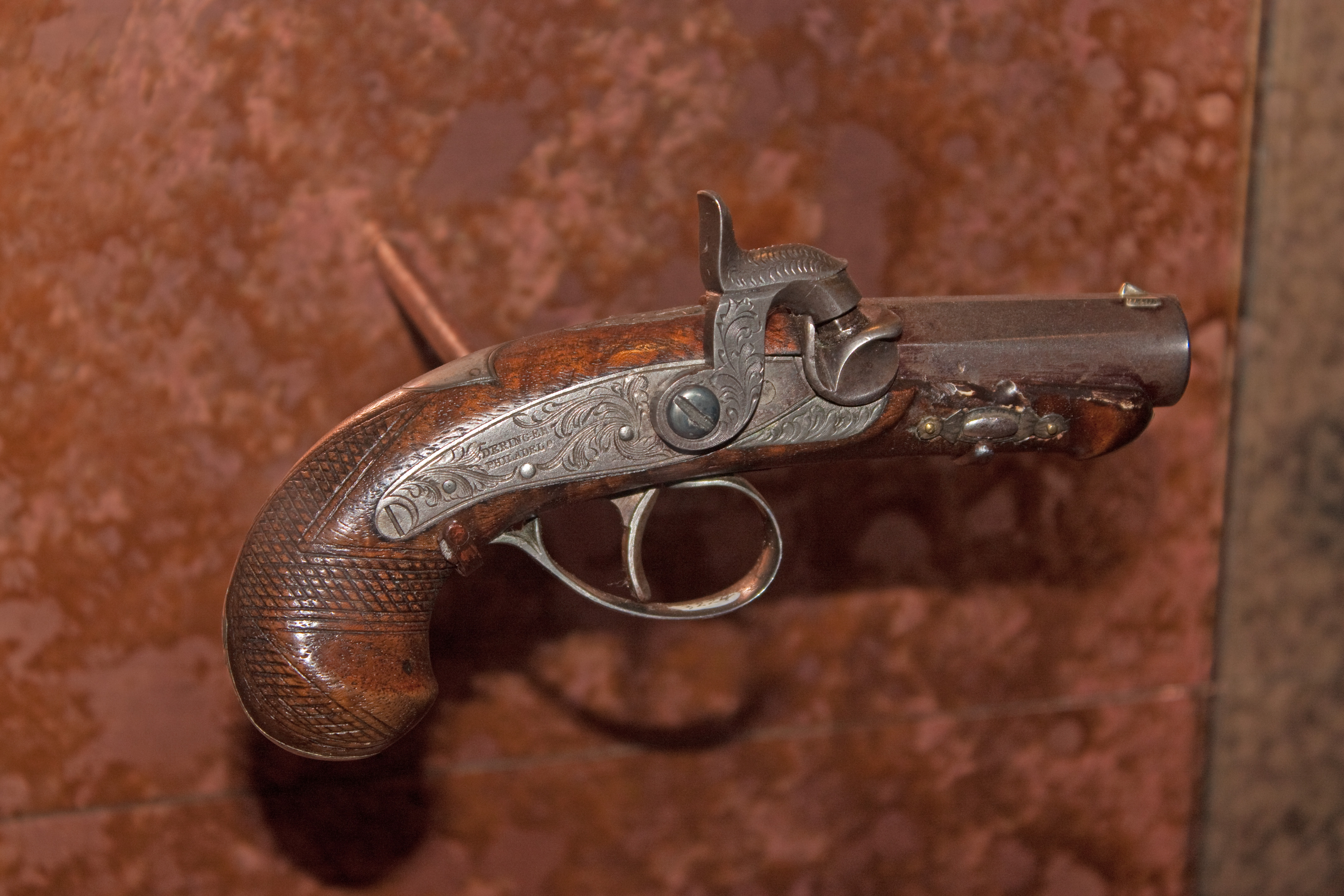 The gun used to assassinate Abraham Lincoln on display at Ford's Theatre in Washington, D.C.